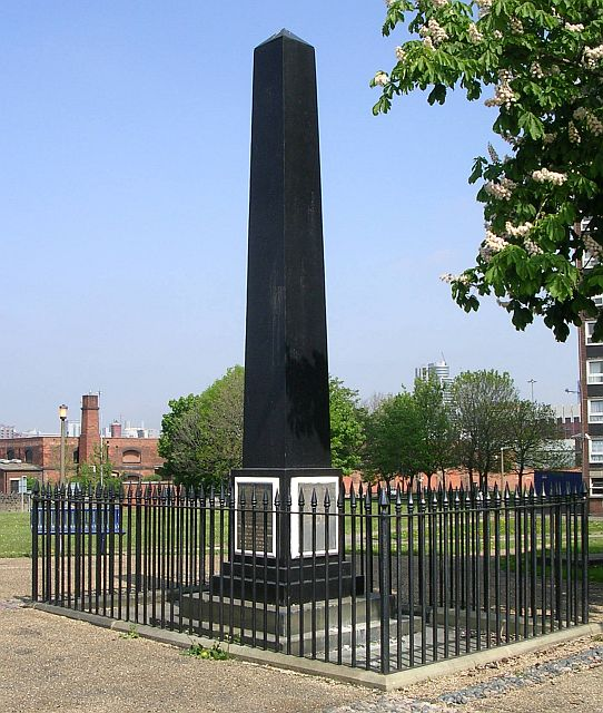 Memorial to Matthew Murray - St Matthew's Churchyard, Holbeck. See separate photograph of inscription 423587